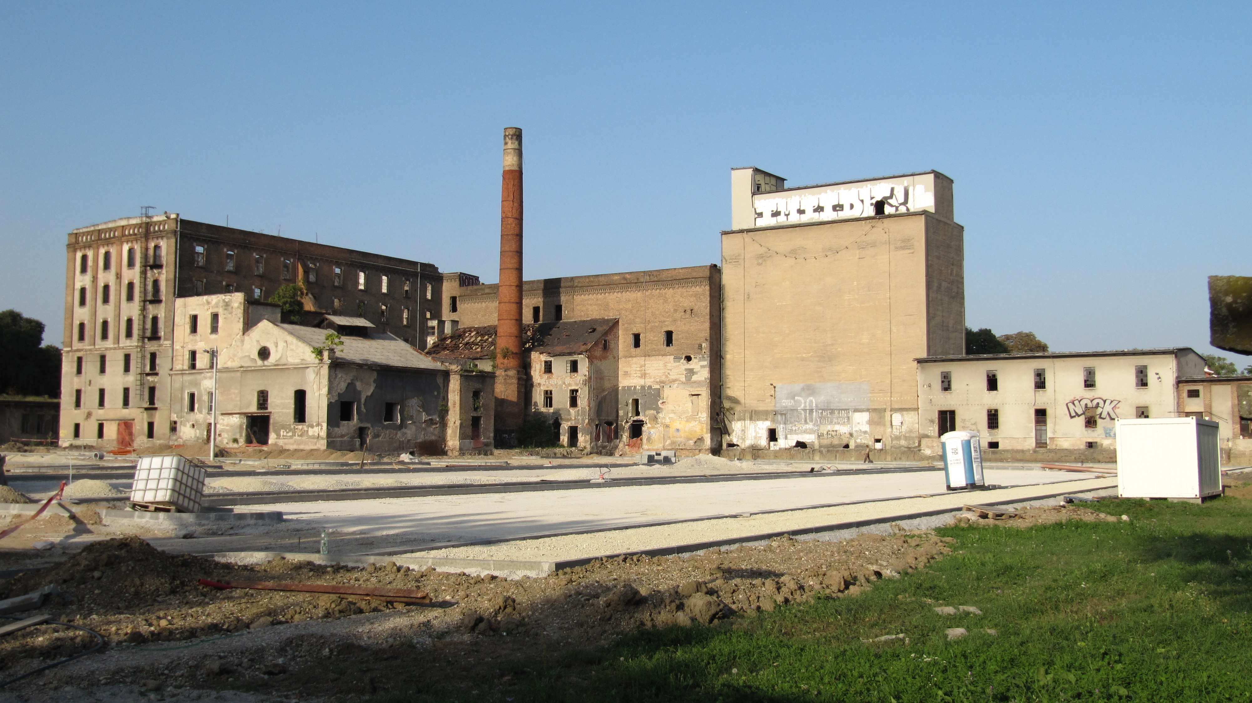 Paromlin building in Zagreb, Croatia.